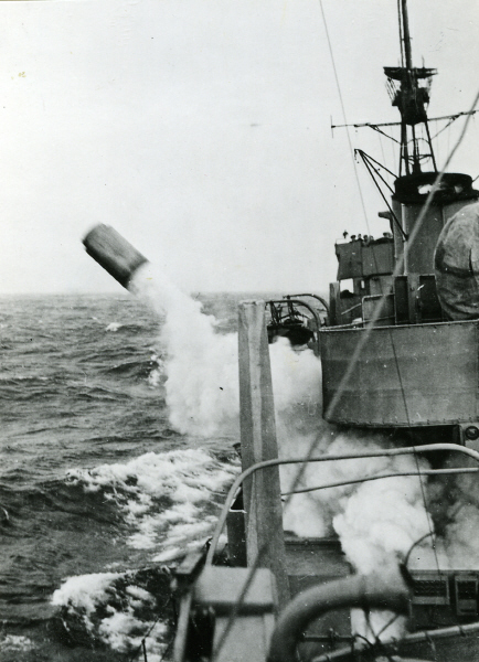 Depth charge being fired from the Swedish destoyer HMS Nordenskjöld.